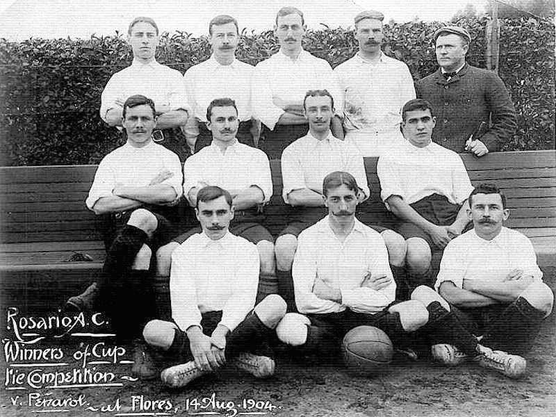 The Rosario A.C. football team that defeated CURCC at the Flores Old Ground.